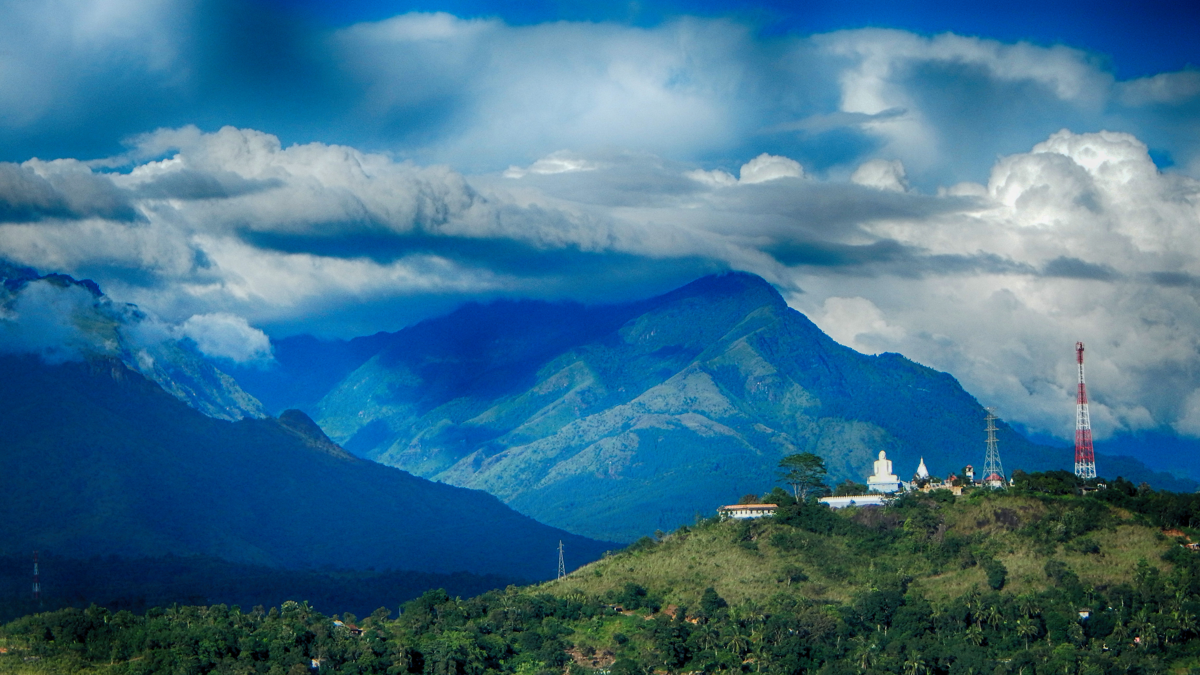 Balangoda Nature